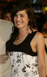 Carly Pope at eTalk Star! Schmooze, Toronto International Film Festival party.